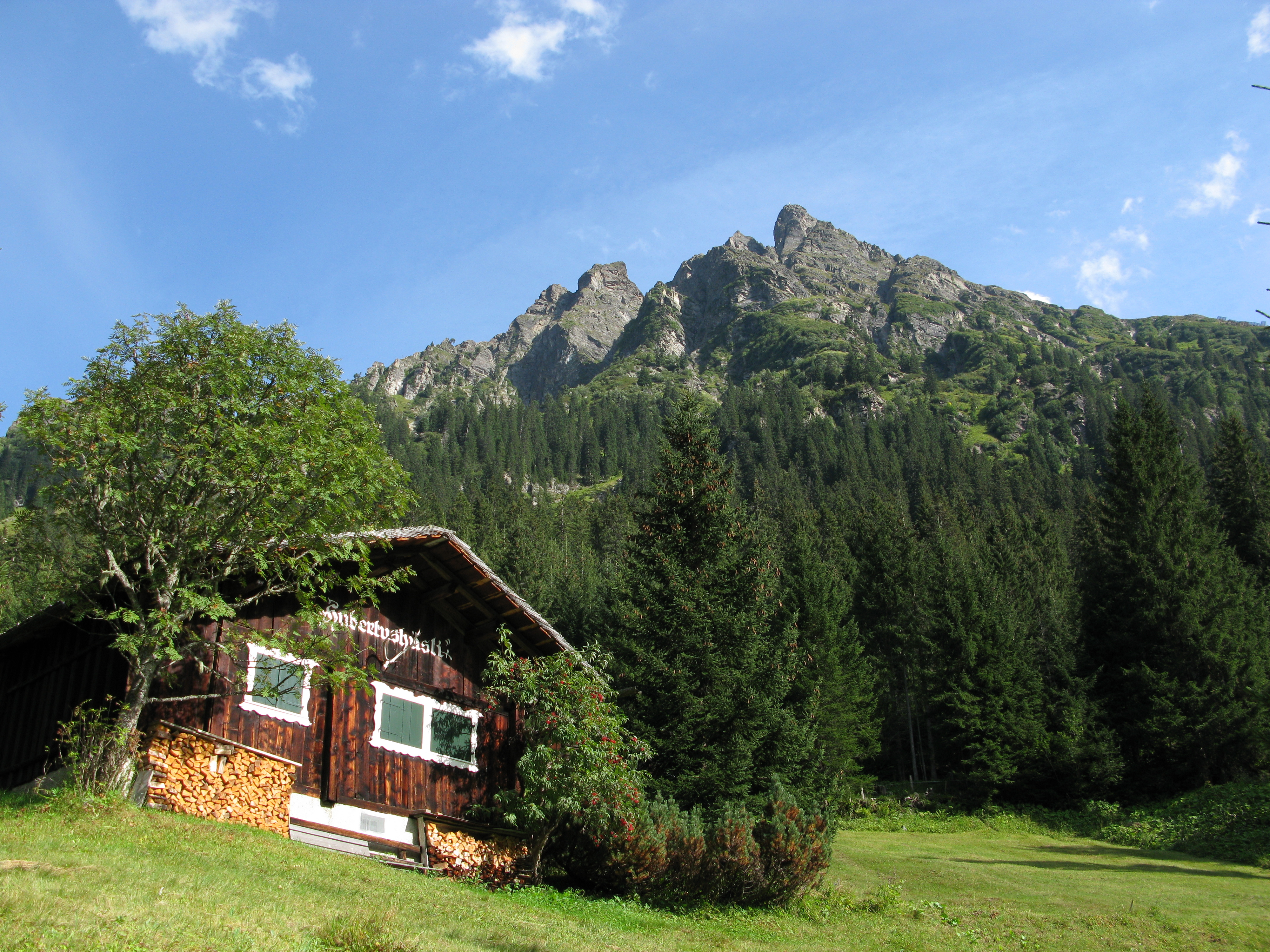 The Schmalzberg and the Hubertushüsli of Gargellen in Montafon (Vorarlberg, Austria).